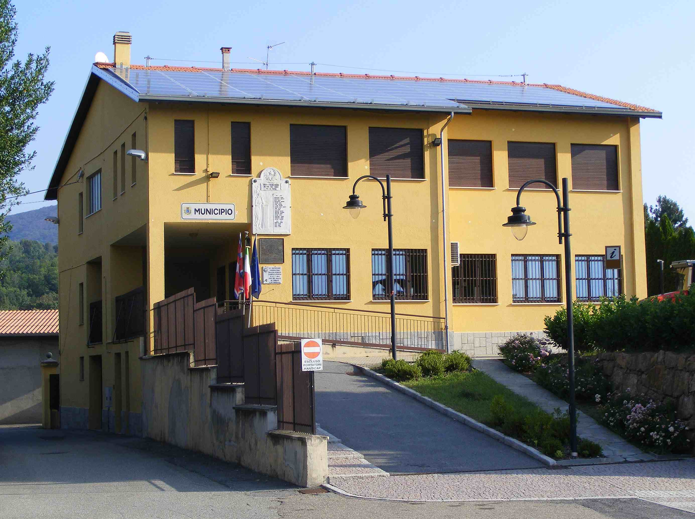 Piatto (BI, Italy): town hall